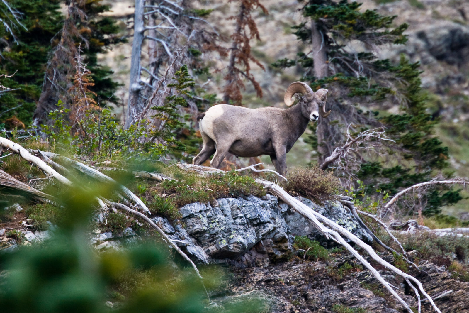 Bighorn Sheep, Grinnell Glacier Trail